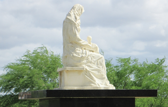 Estátua.